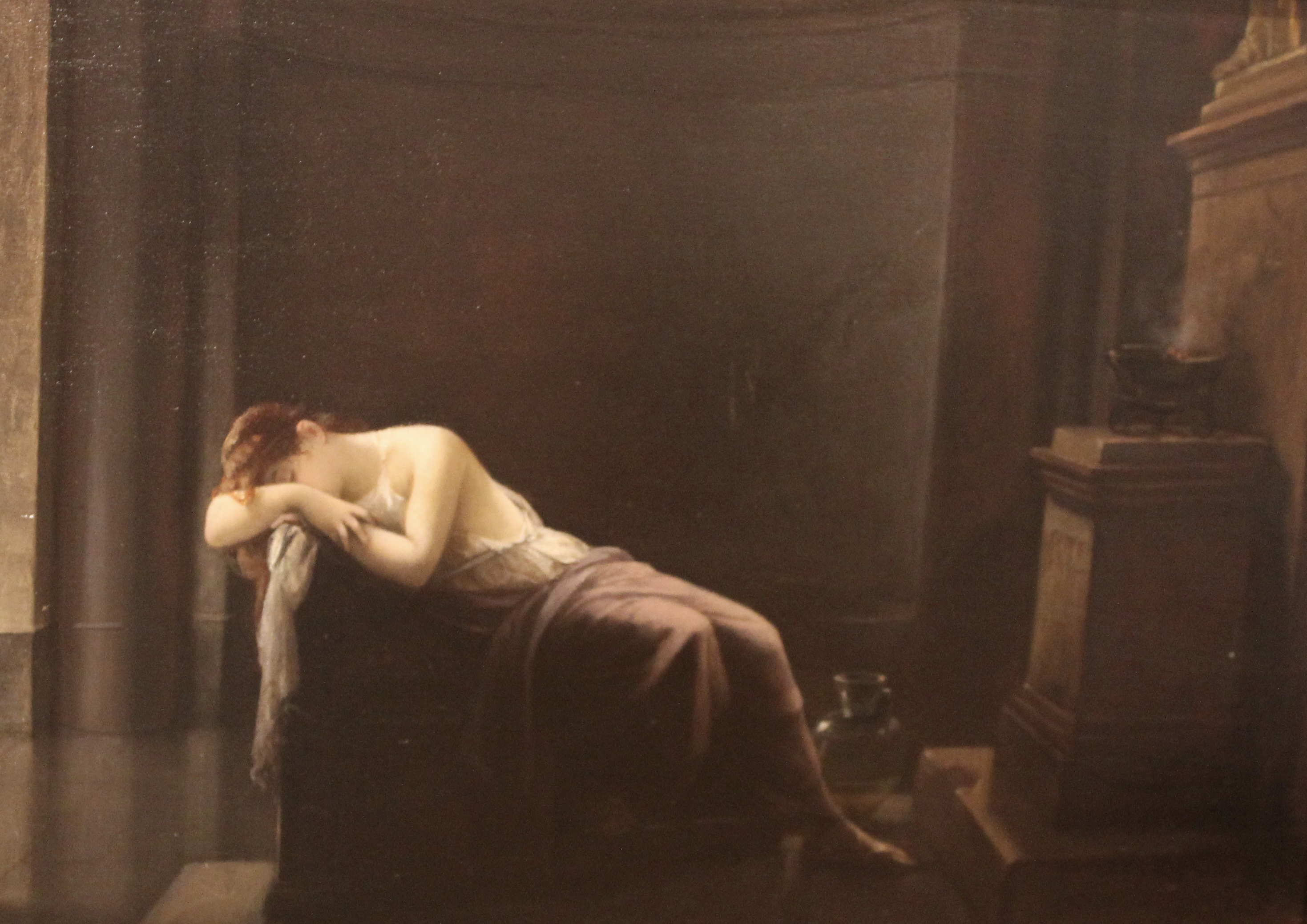 Photo of Une gardienne du feu sacre de vesta by Louis Hector Leroux from the Widener University Art Museum Alfred O. Deshong collection